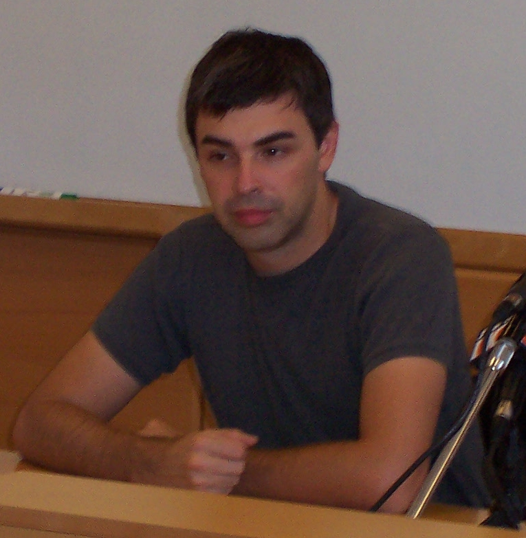 Larry cutted from big image